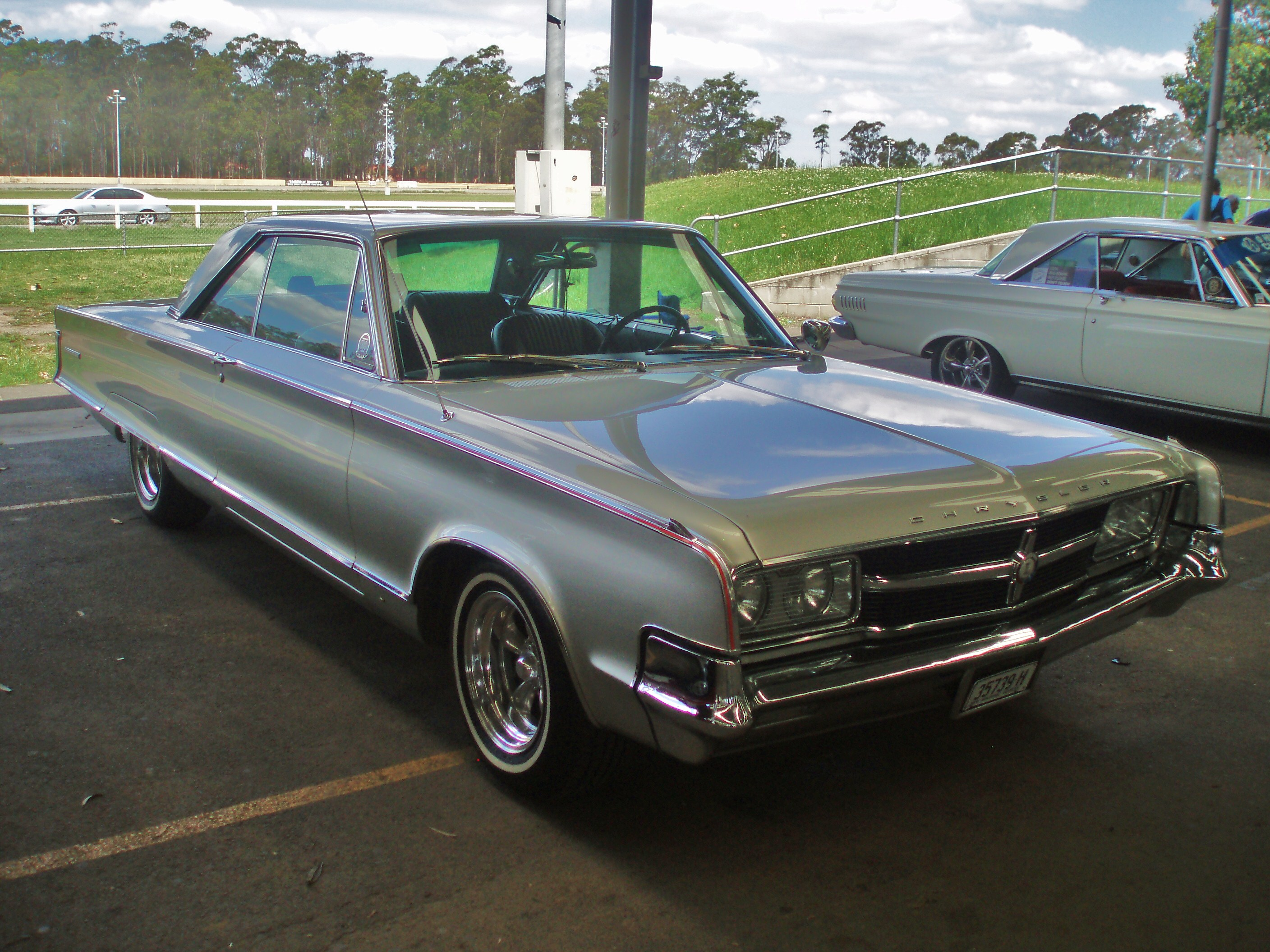 1965 Chrysler 300 L coupe. Taken at the 2010 New South Wales All Chrysler Day, held at Fairfield Showground, Prairiewood, Sydney.